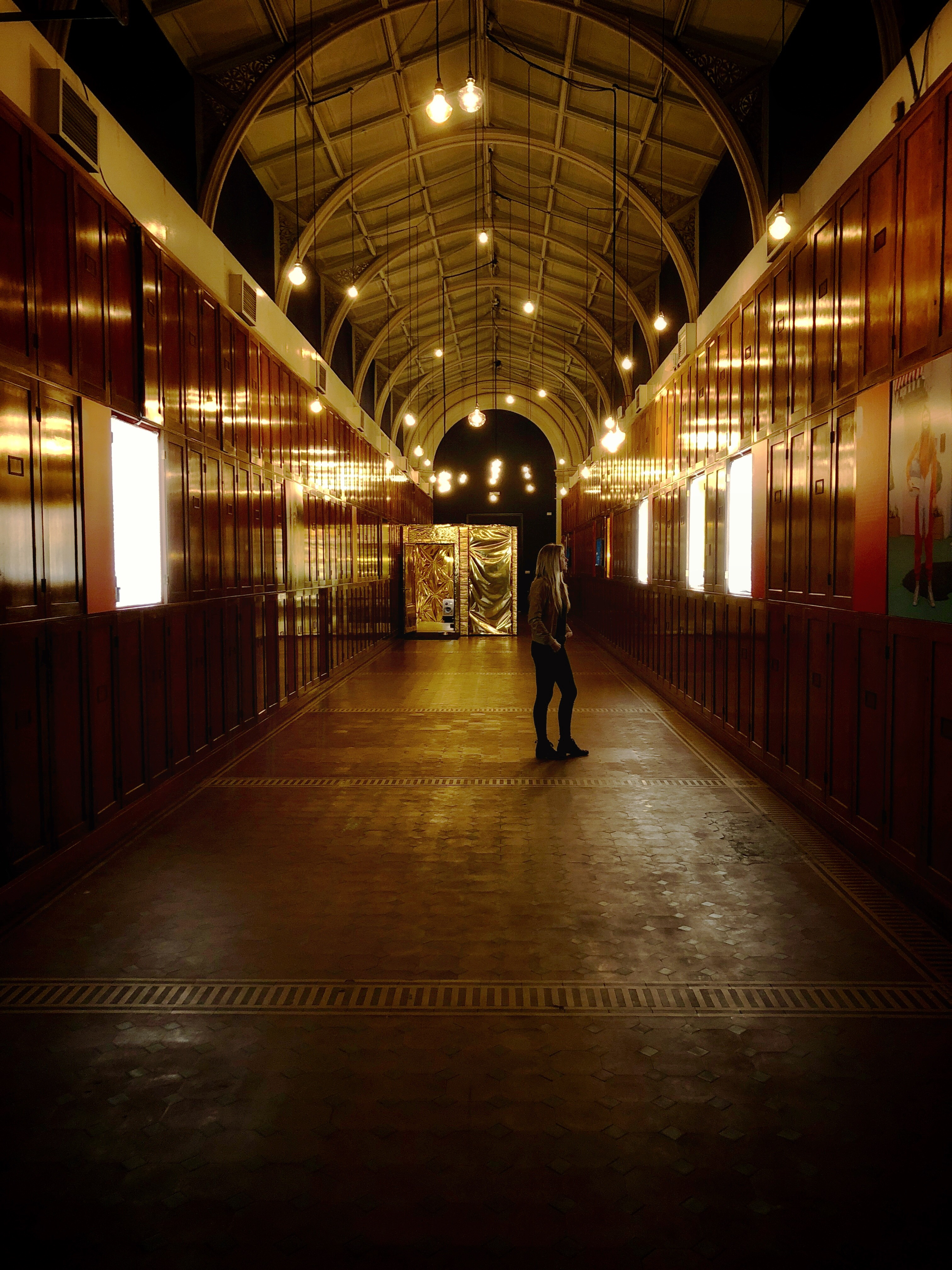 Beatie Wolfe standing in her album exhibition at the Victoria and Albert Museum